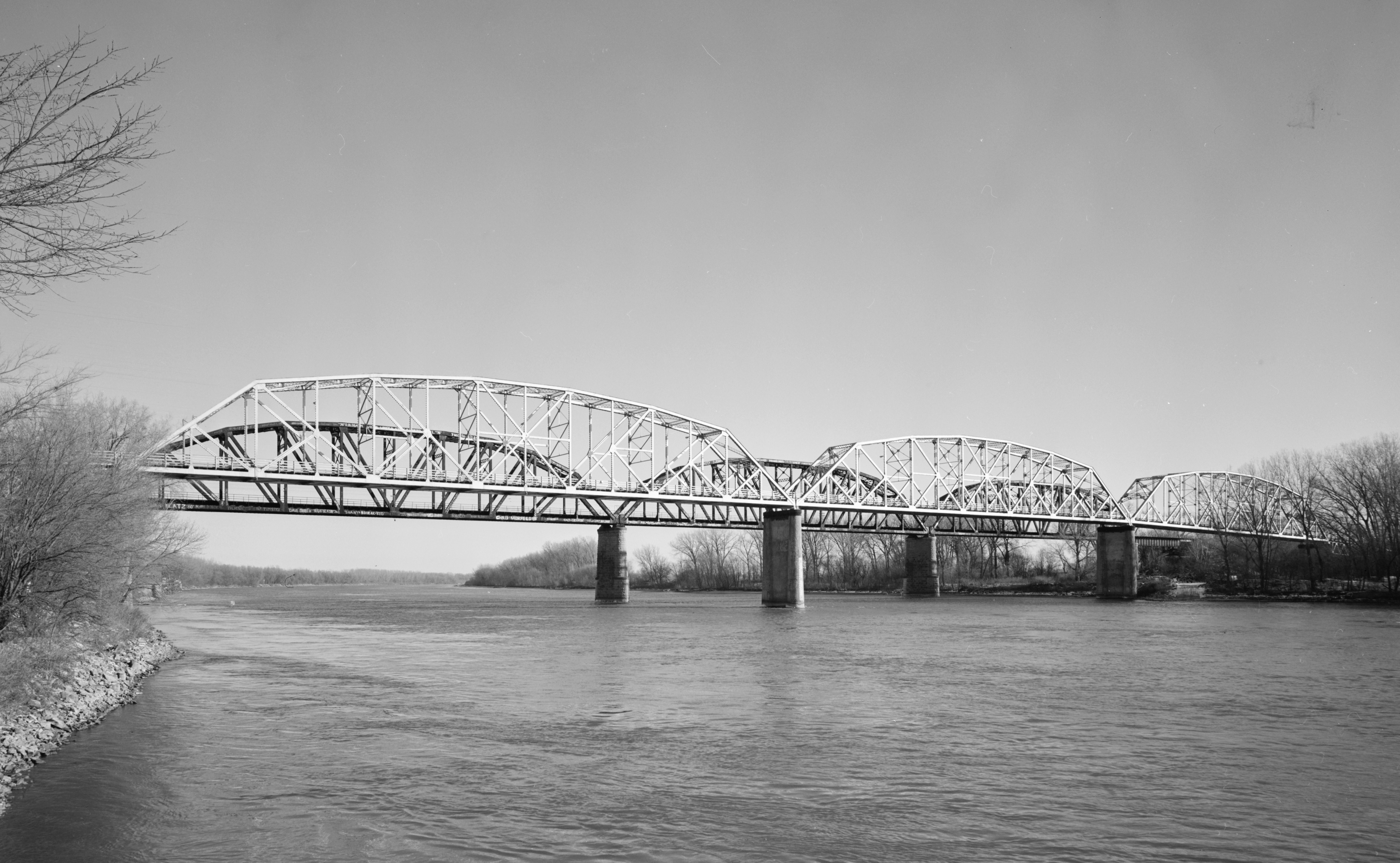 OVERALL VIEW OF BRIDGE AND MISSOURI RIVER. VIEW TO NORTH. - Abraham Lincoln Memorial Bridge, Spanning Missouri River on Highway 30 between Nebraska and Iowa, Blair, Washington County, NE